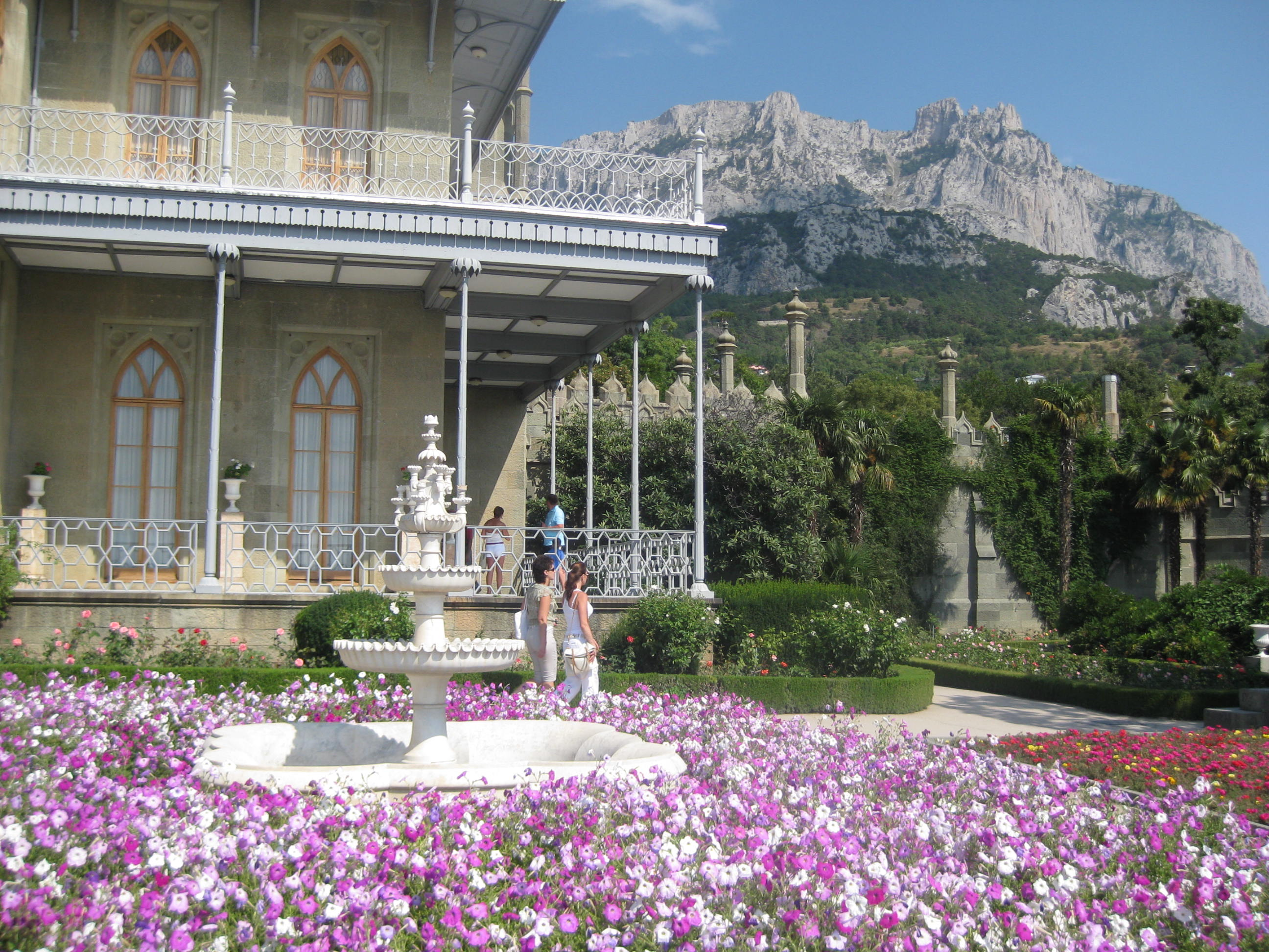 Gardens, balconies, and fountain at the Vorontsovsky Palace in Alupka, the Crimea, Ukraine.